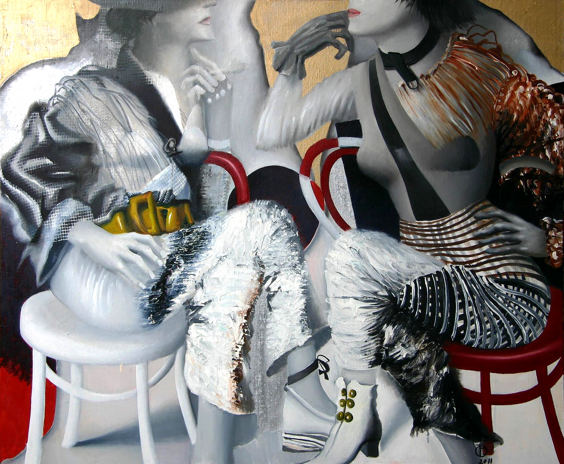 Dialog